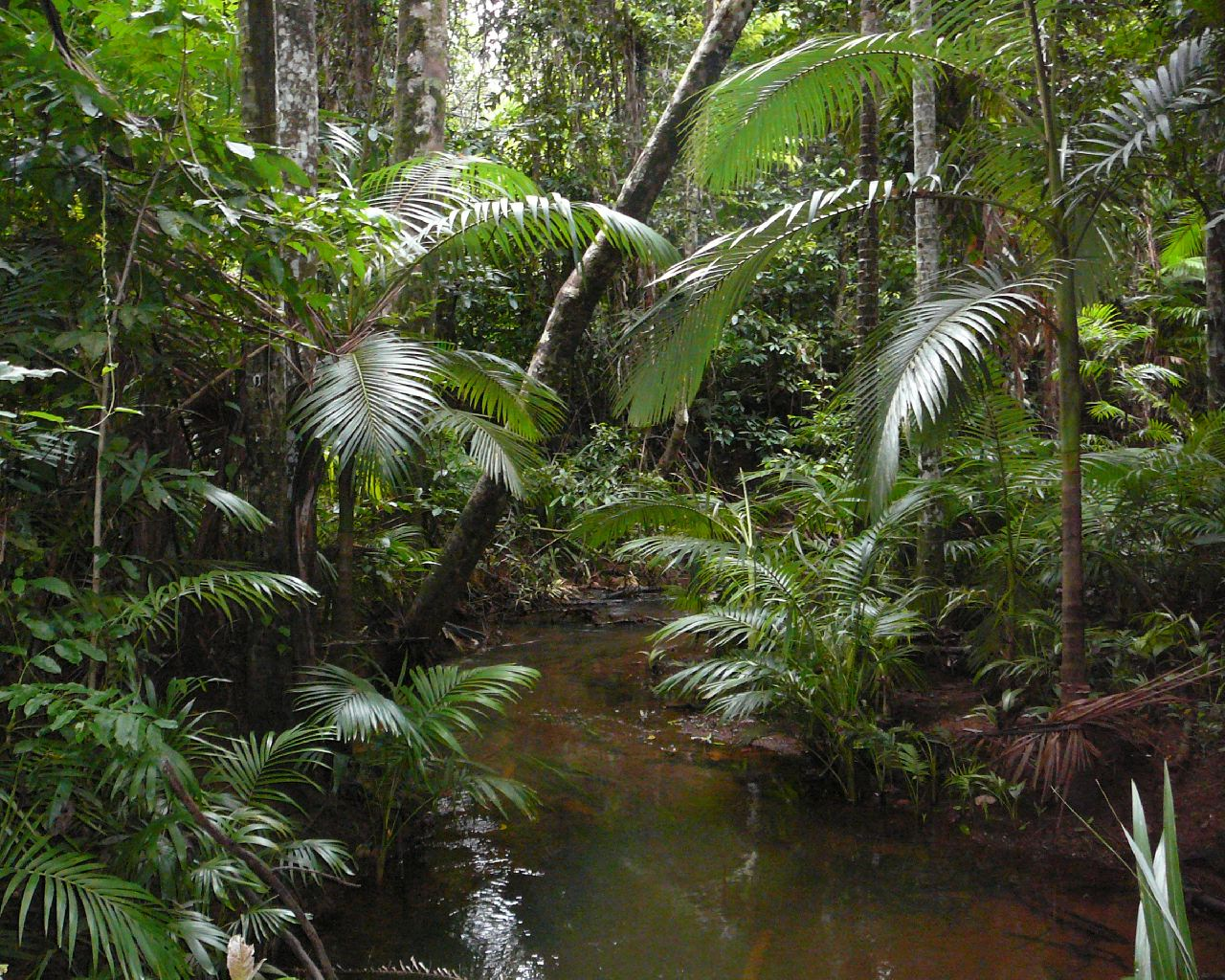 Archontophoenix alexandrae growing in littoral rainforest in north Queensland, Australia.